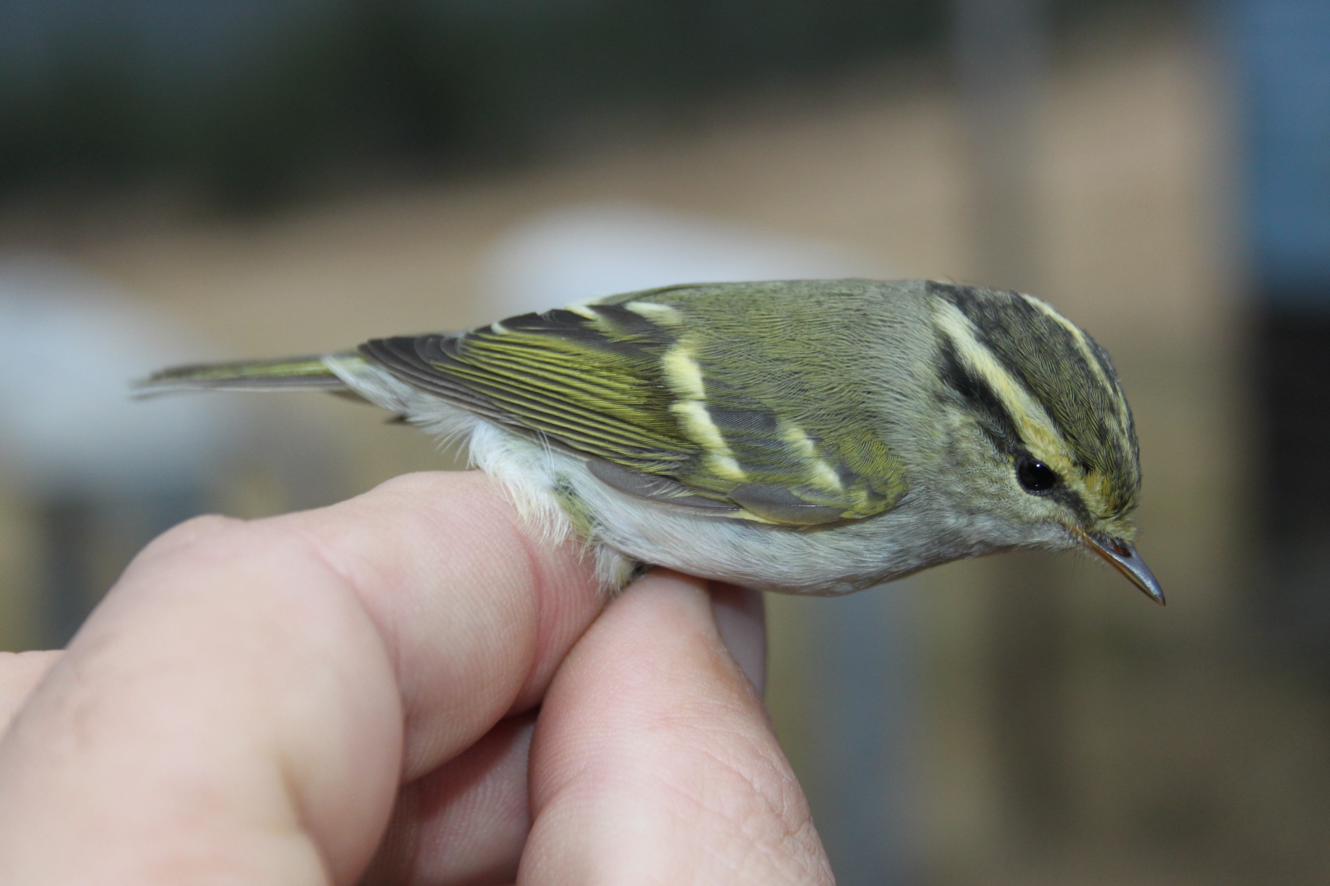 Pallas's Warbler, ringed at Cervenohorske sedlo, Czech Republic, on 2nd November 2013.